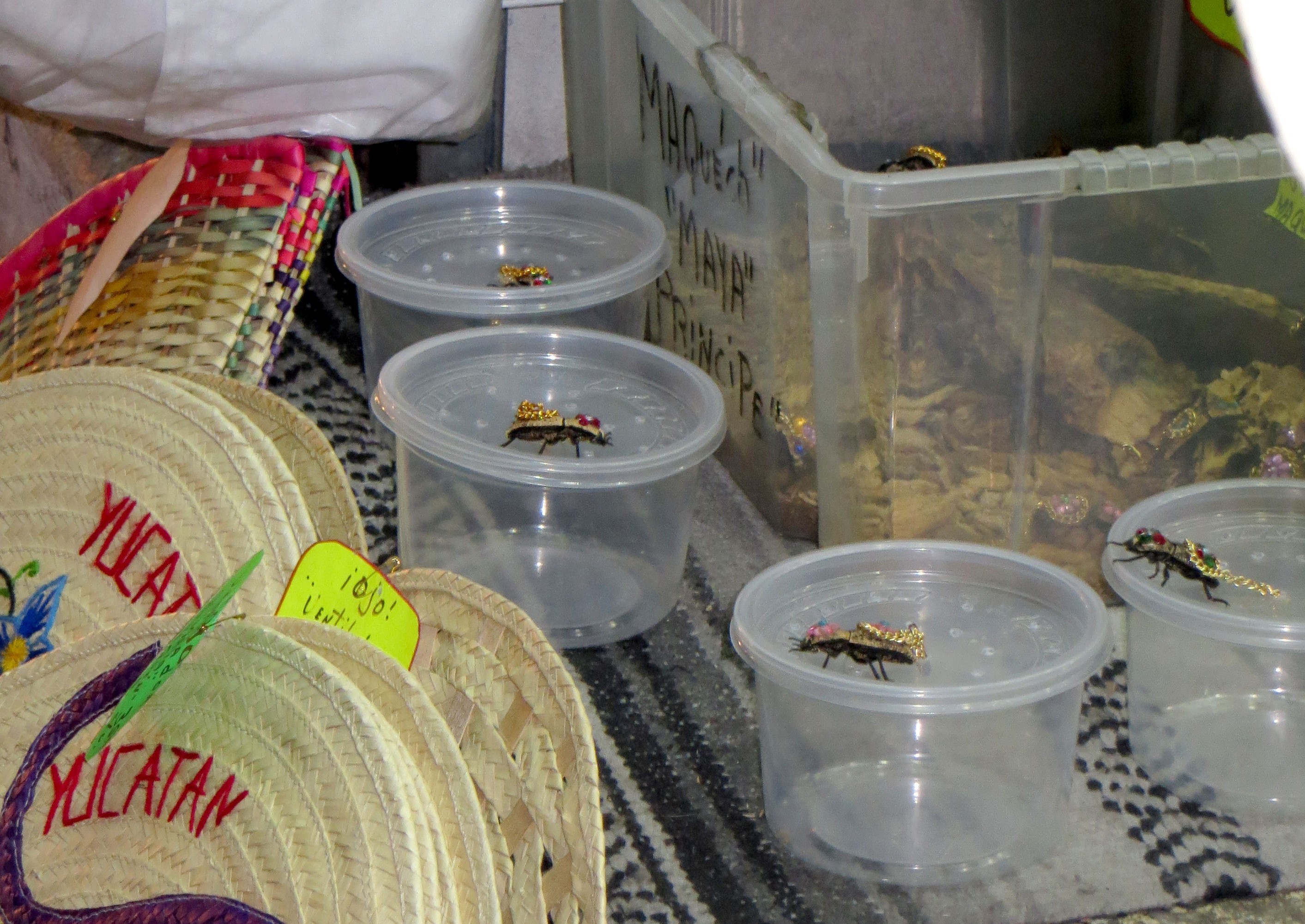 live bejeweled beetles, offered in a shop in Mérida (Mexico)